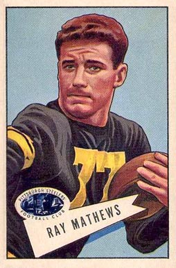 American football player Ray Mathews on a 1952 Bowman Large card.